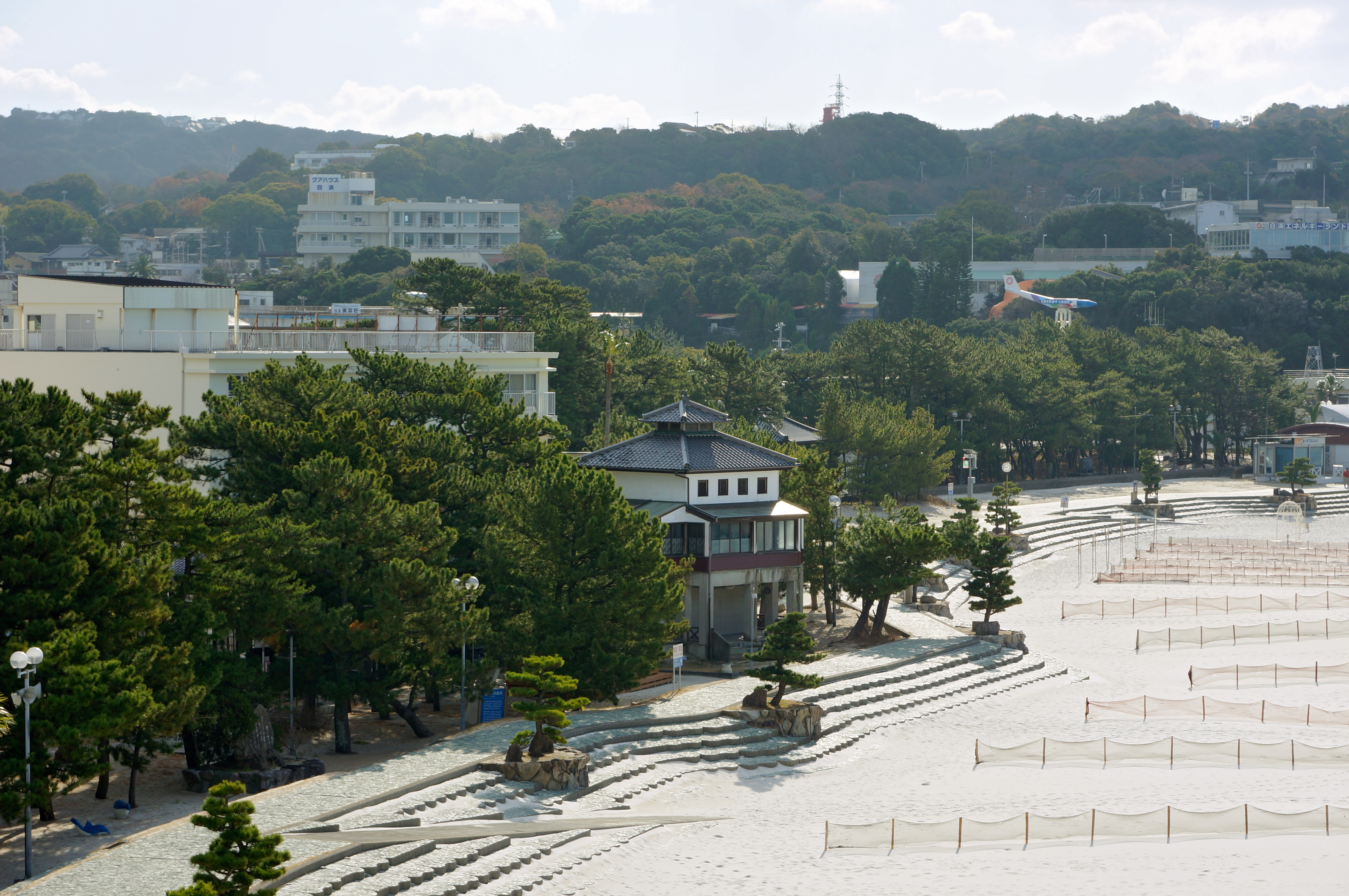 Nanki-Shirahama Onsen in Shirahama, Wakayama prefecture, Japan.